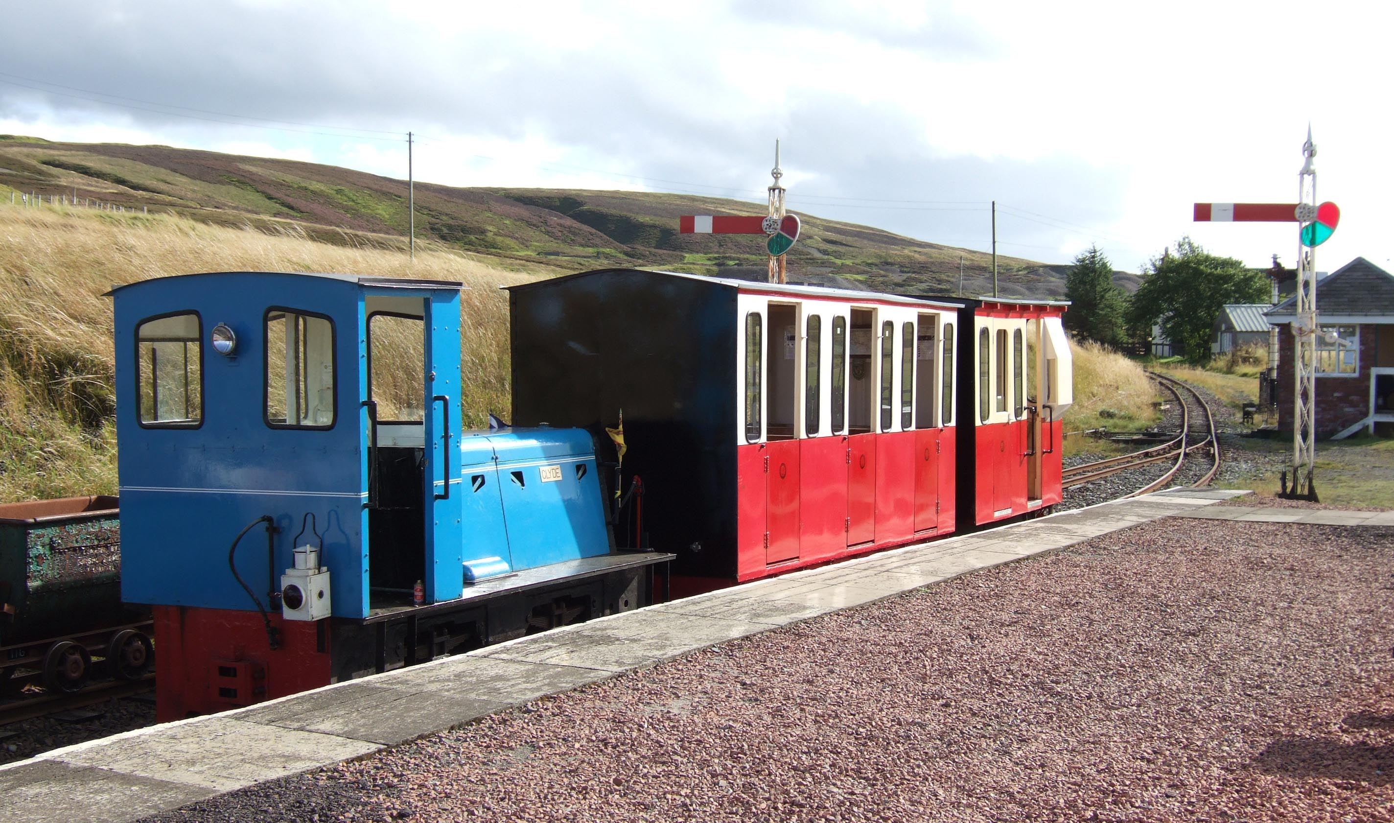 Leadhills & Wanlockhead Railway. HE 4wDH locomotive No.6 "Clyde", on a typical train at Leadhills station. 29th August 2005 Photographer - A.M.Hurrell Camera - Fuji FinePix F10 Modified - Trimmed and file size reduced using Finepix Software